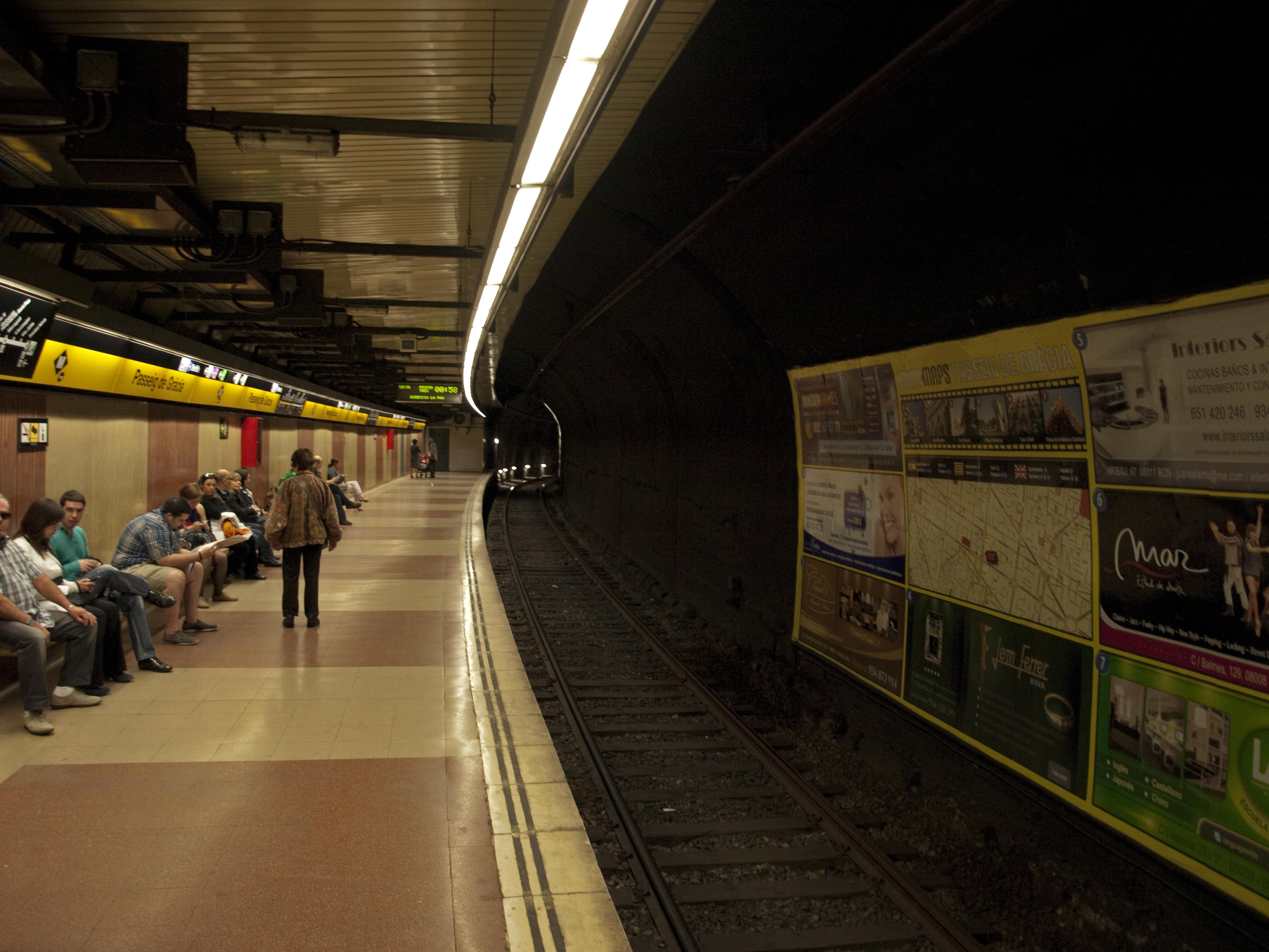 Passeig_de_Gràcia station, Line L4